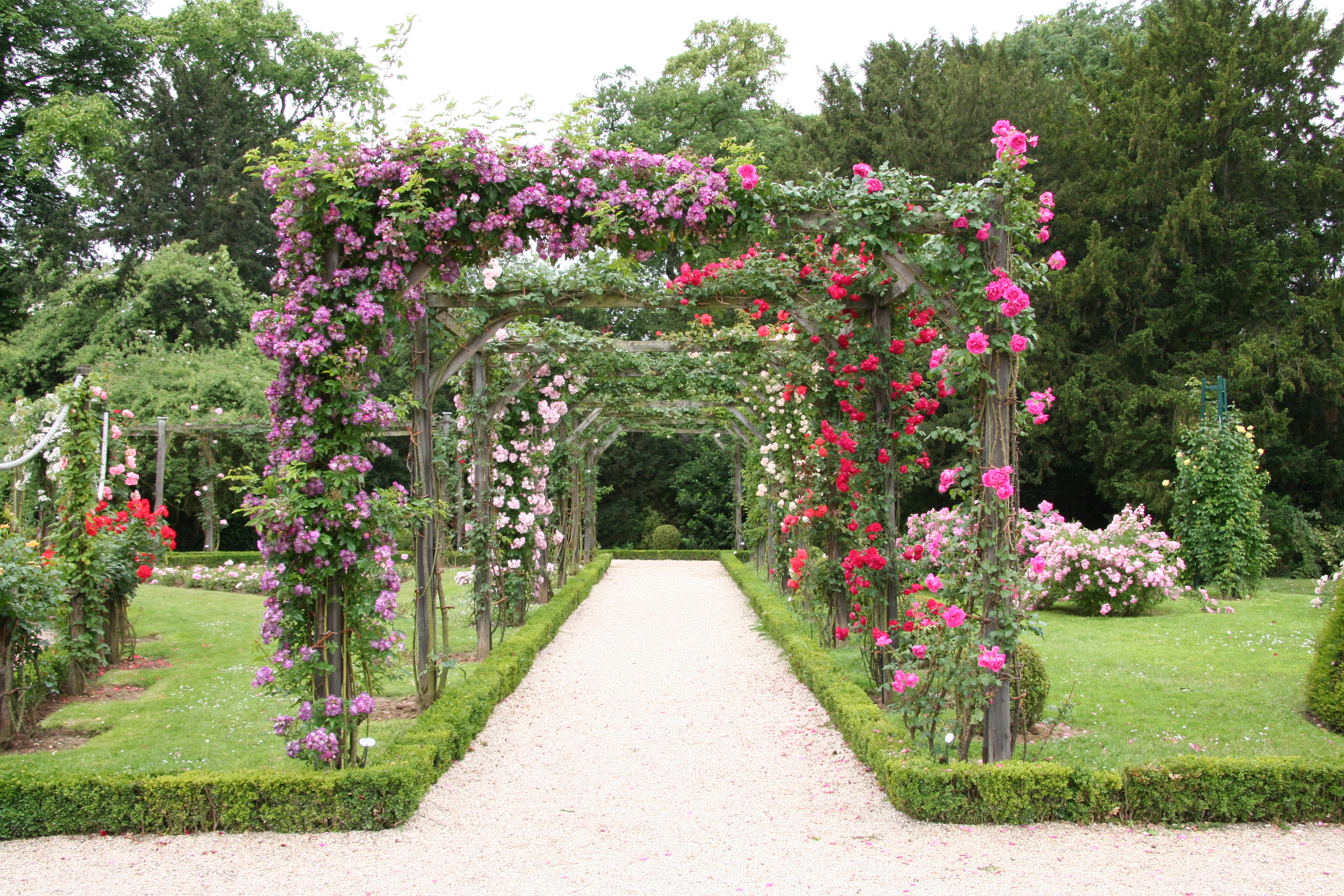 Unknown roses - Bagatelle Rose Garden (Paris, France).